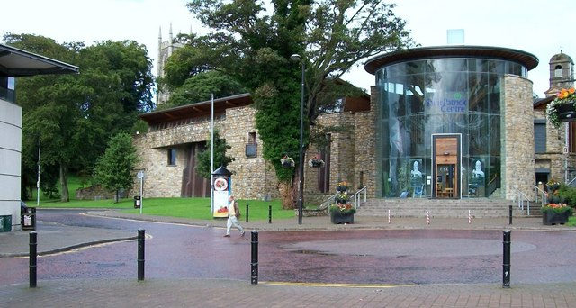 St Patrick Centre, Downpatrick. The Saint Patrick Centre is the World's only permanent interpretation centre dedicated to this Welsh ex-pat who became the Patron Saint of Ireland. It is also one of the top tourist attractions in Ireland. 1073093